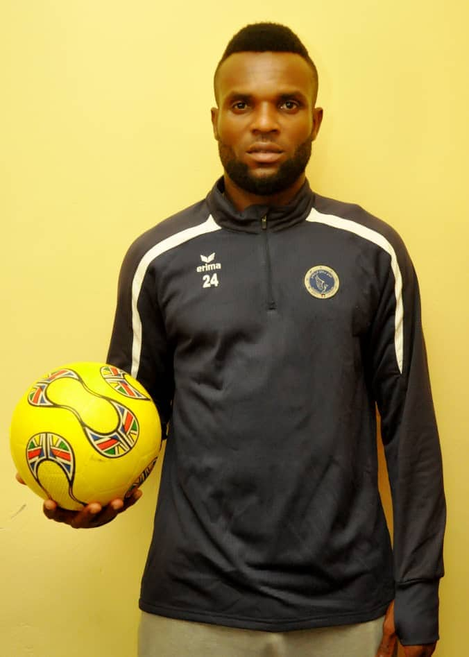 Before the game against Enugu Rangers FC (2 March 18)